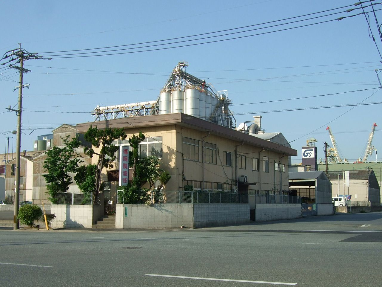 FUKUOKA SEIYU headquarters, Chuo Ward, Fukuoka City, Fukuoka, Japan.